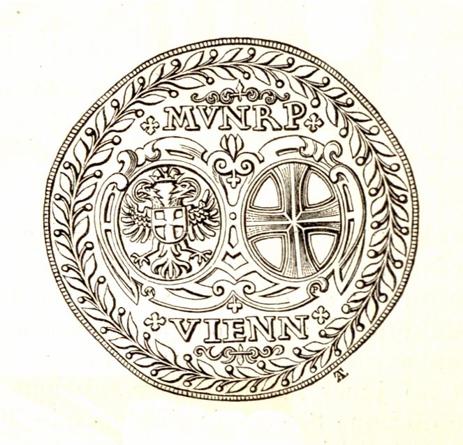 Artikel aus den Mittheilungen der kaiserl. königl. Central-Commission zur Erforschung und Erhaltung der Baudenkmale Band 11, 1866. Alle im PDF-Dokument enthaltenen Bilder stehen in Originalauflösung in derselben Kategorie zur Verfügung. Scanprojekt Bundesdenkmalamt Österreich This scan or this PDF-file was created within the Austrian Wikipedia-project Denkmalpflege Österreich (German only) supported by Wikimedia Germany and Wikimedia Austria as part of the Wikipedia community-project to collect public domain documents from the library of the Heritage Monuments Board of Austria. This document describes or depicts an object which is located in Austria today. Texts are written in German language. Send requests for uncompressed scans to Hubertl. This work is in the public domain in the United States, and those countries with a copyright term of life of the author plus 100 years or less. This file has been identified as being free of known restrictions under copyright law, including all related and neighboring rights.